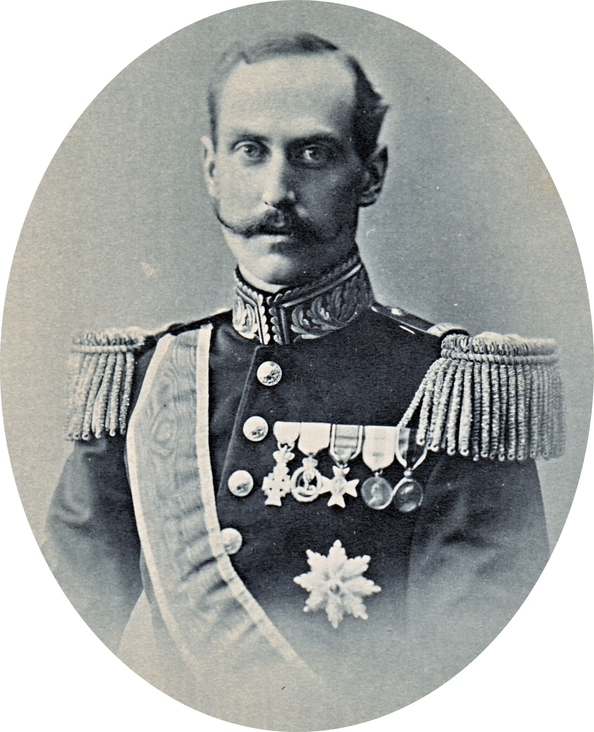 King Haakon VII of Norway photographed by Norwegian photographer Gustav Borgen (1865-1926) for use as a postcard.